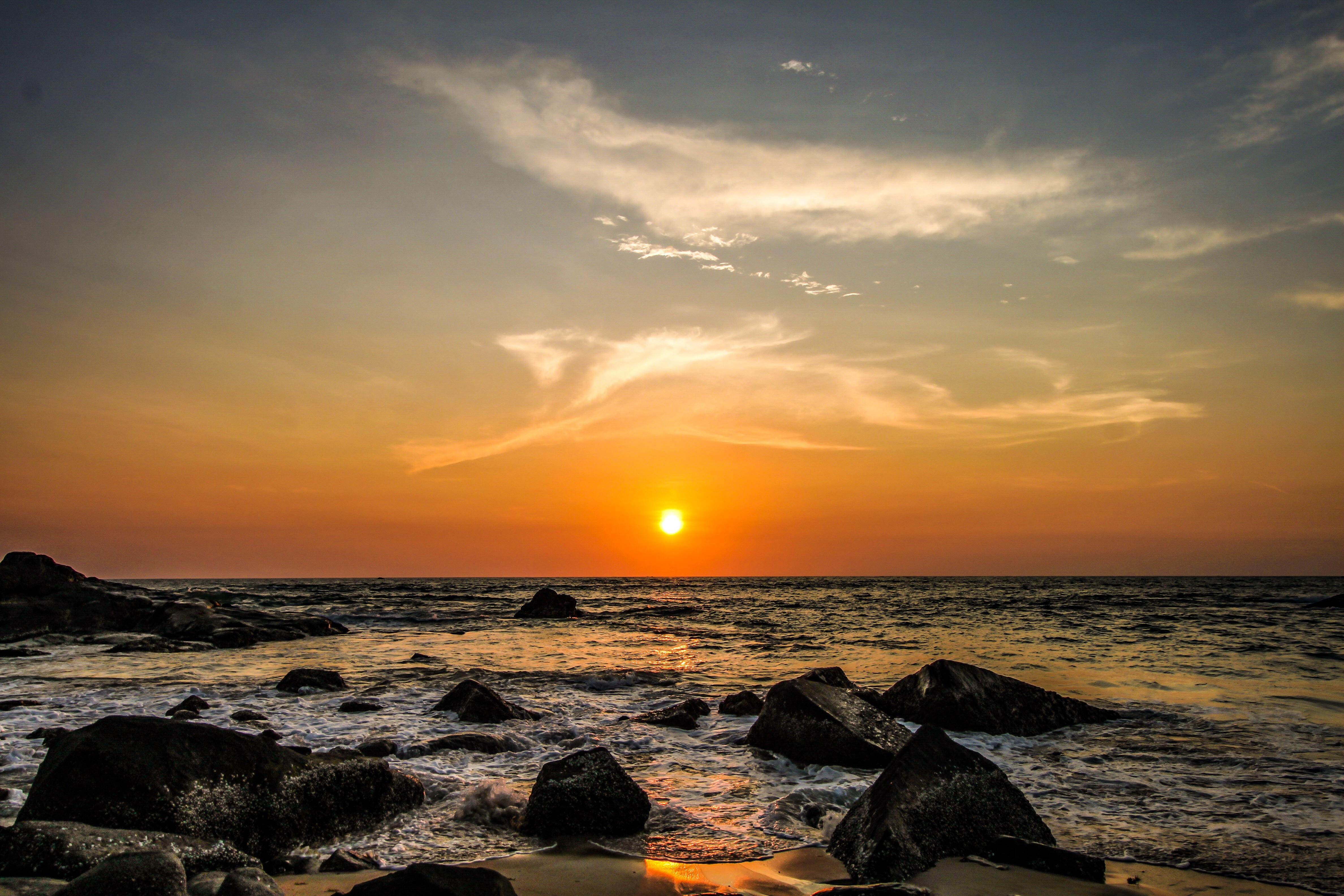 อุทยานแห่งชาติเขาหลัก-ลำรู่